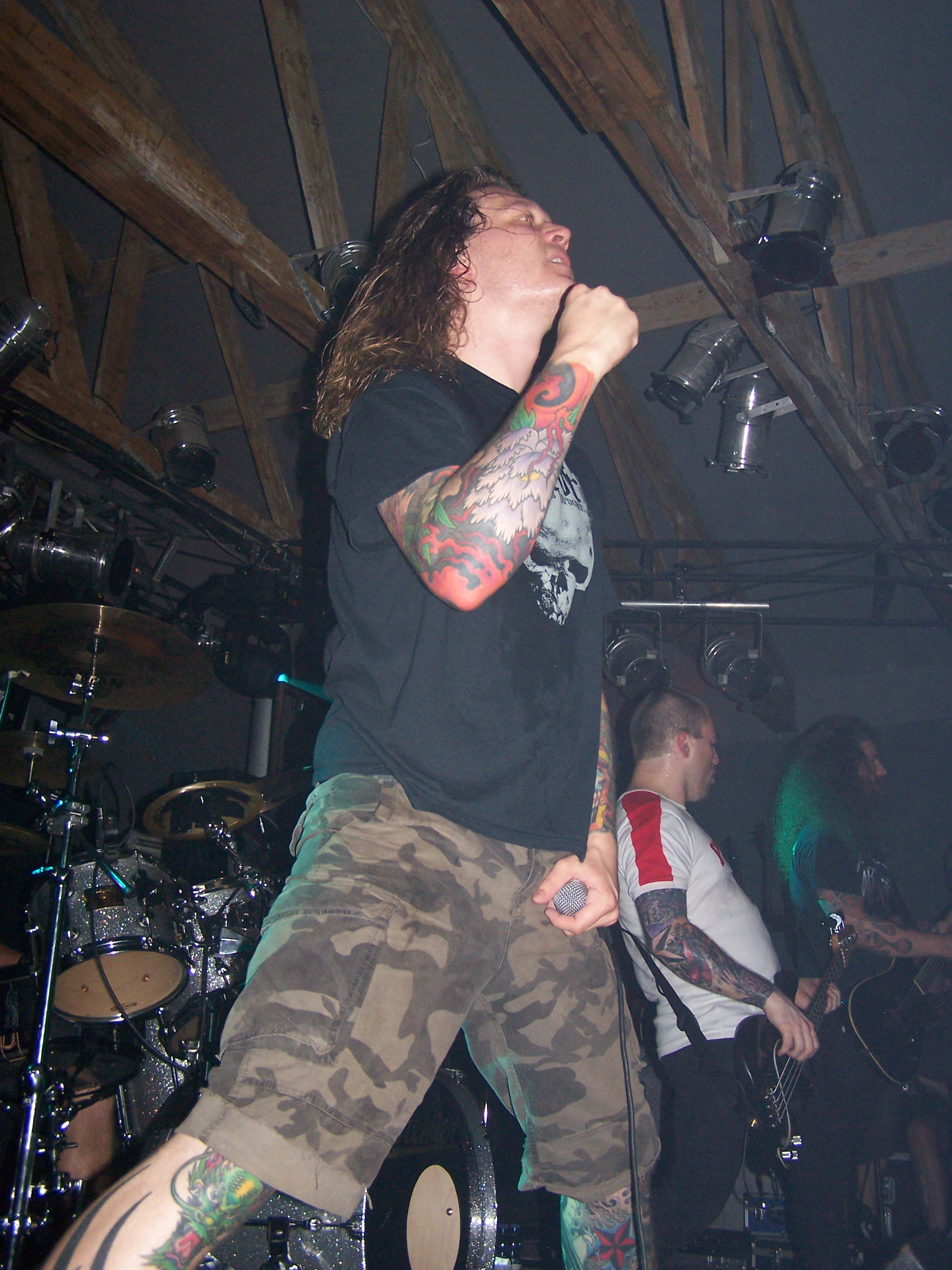 Hatesphere during Polish Apostasy Tour 2007 in Mega Club in Katowice.